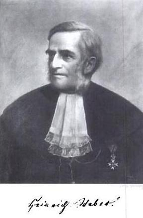 Heinrich Weber, forrestry and agriculture professor in Tübingen (Germany)